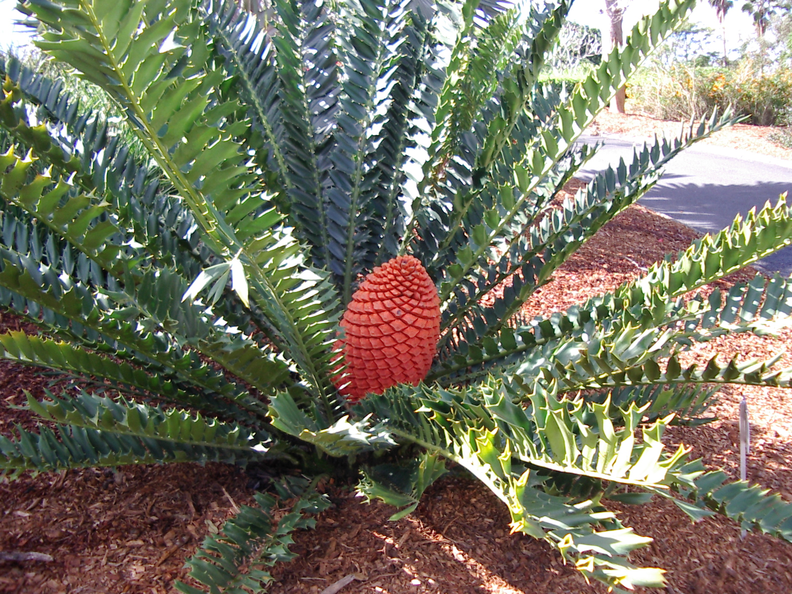 A Maputaland cycad, native to Sth. Africa and Mozambique. Location: Mt. Coot-tha Botanic Gardens, Brisbane, Australia. The male and female cones are borne on separate plants and while both colourful, are quite different from each other otherwise. The female plants bear 1-5 ovoid cones, each 25-50 cm tall and 20-40cm in diameter. The female cones are sessile on the plant (i.e. they have no stem). The male plants however bear 1-6 cylindrical cones per crown. These are longer (40-50cm) and much narrower (only 8-10cm in diameter) and not as bright. The male cones are held on short stems up to 3cm long.